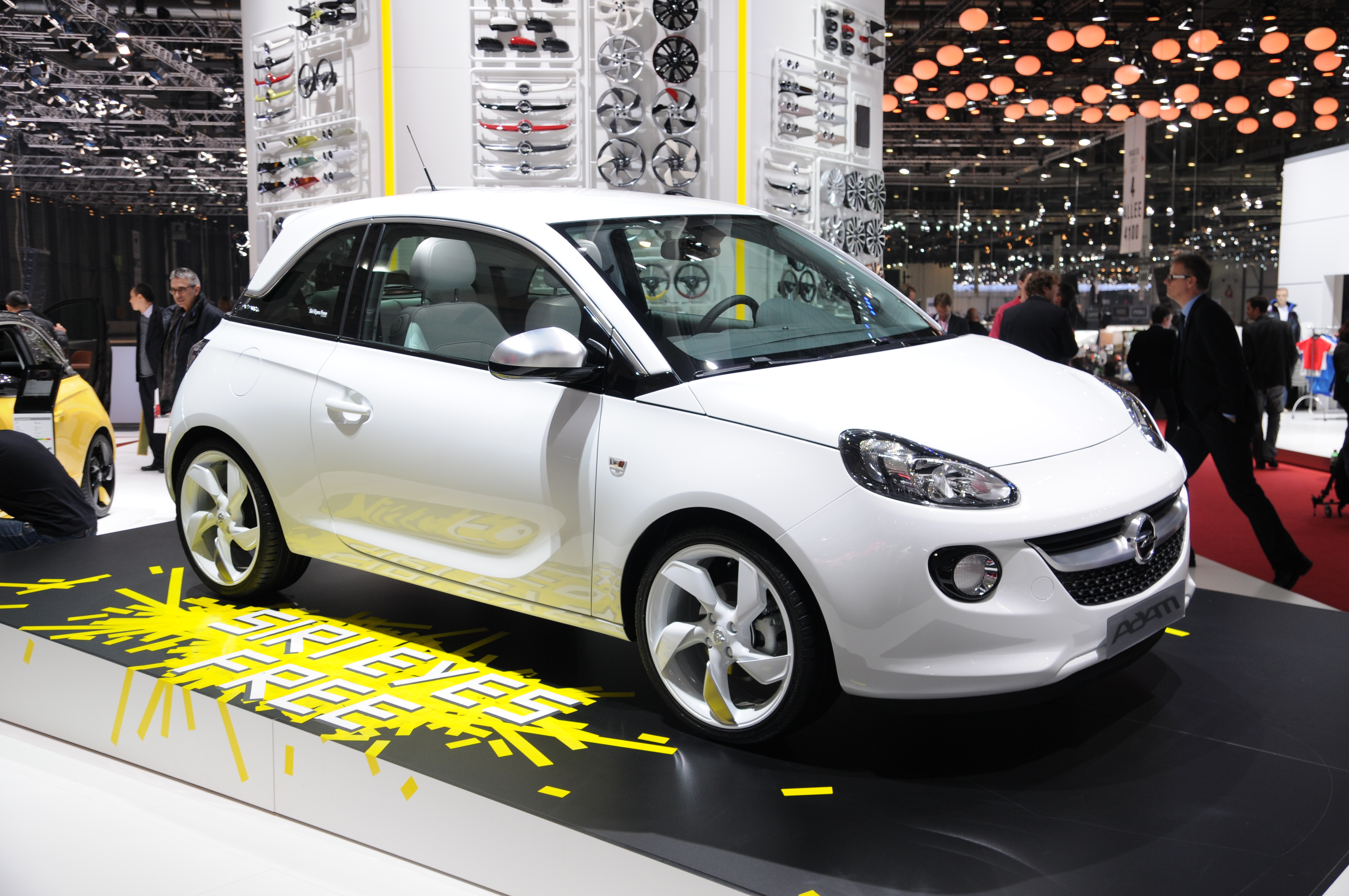 Geneva Motor Show 2013 (photos taken on the first press day)